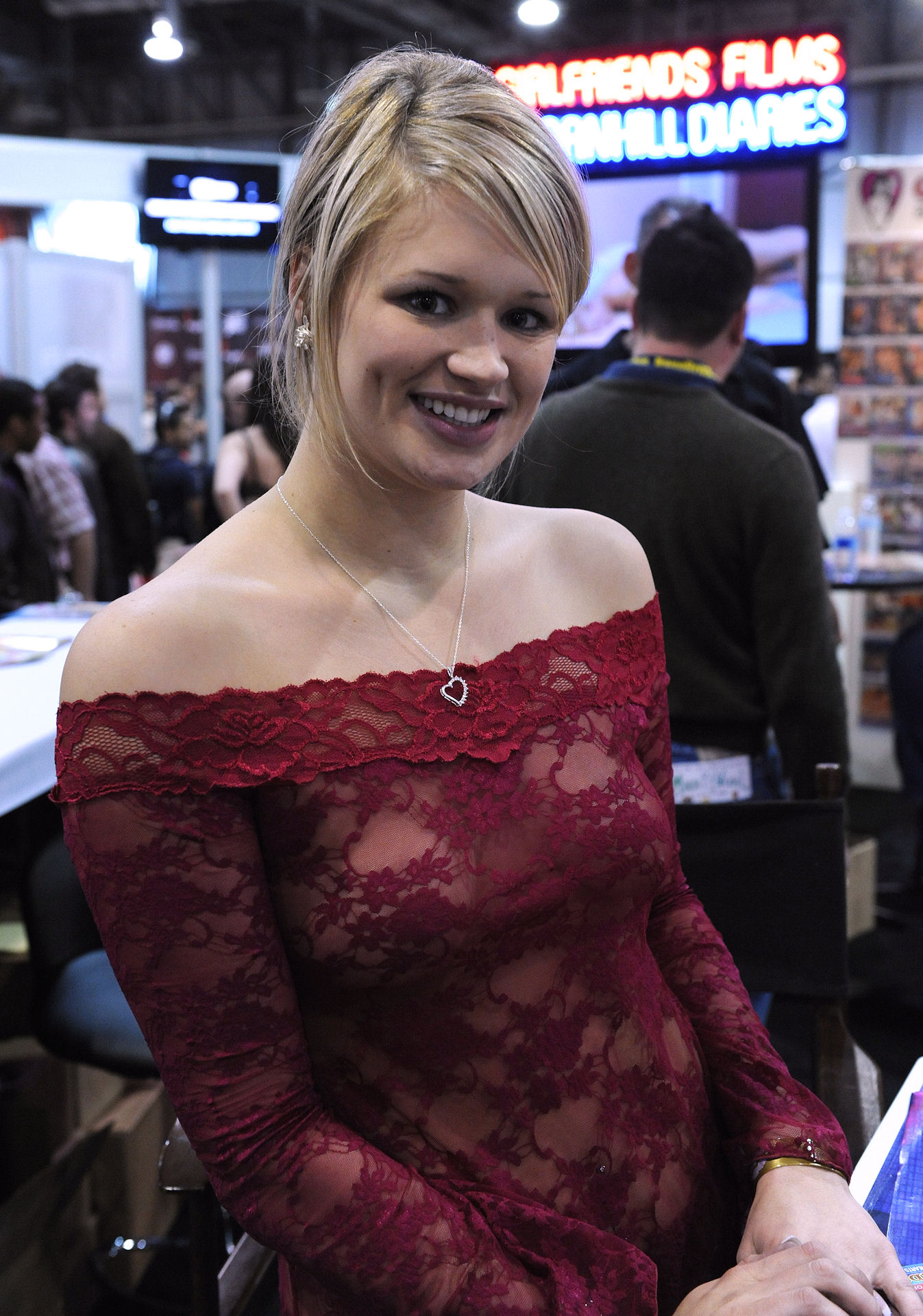 Heather Starlet at AVN Adult Entertainment Expo 2011